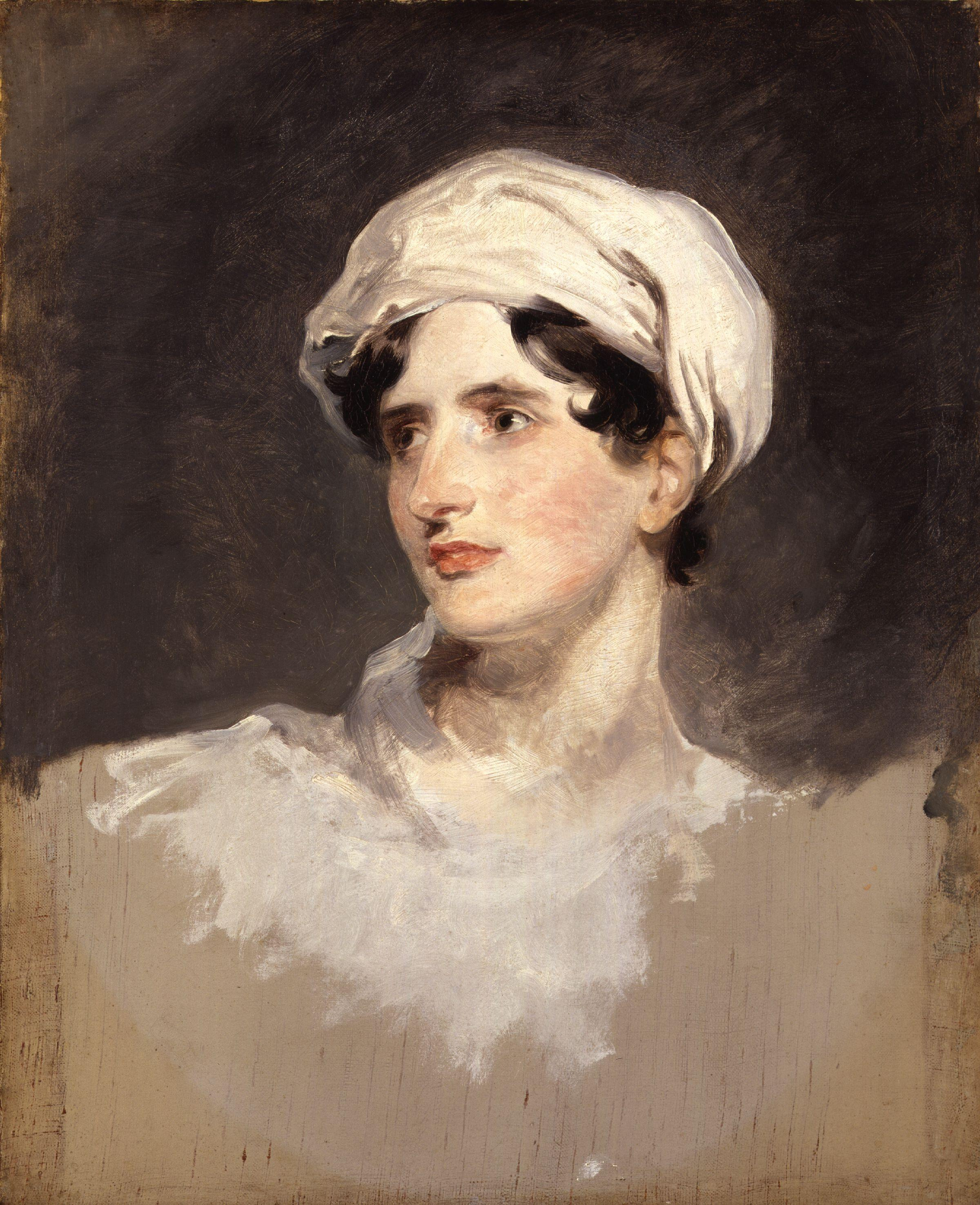 Maria, Lady Callcott, by Sir Thomas Lawrence (died 1830). All images in this batch have been confirmed as author died before 1939 according to the official death date listed by the NPG.